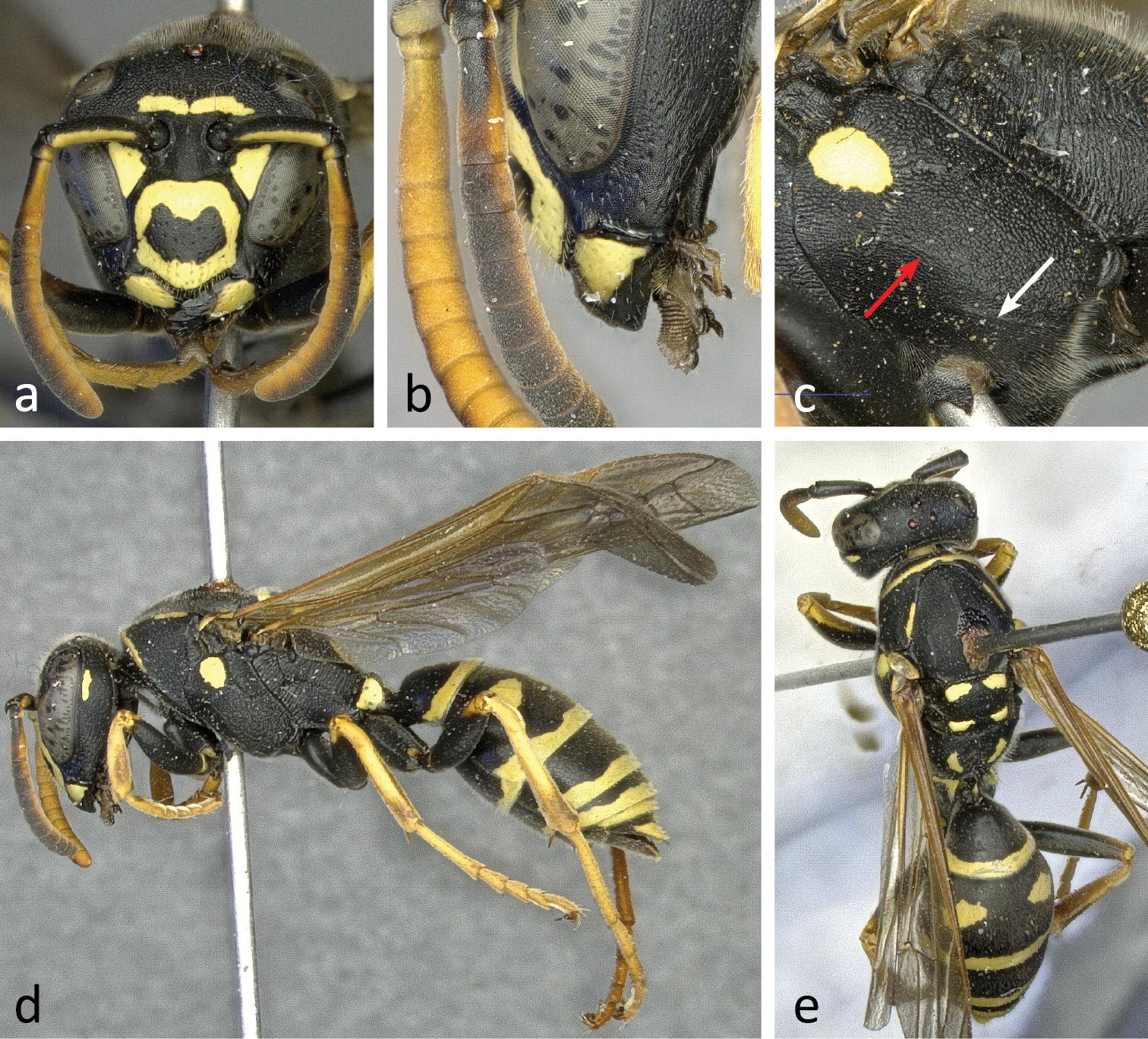 female Polistes helveticus a: frontal view of head b: lateral view of lower face c: mesopleiral region of mesosma d: lateral view of body e: dorsal view of body: red arrow: rather reduced epicnemial carina white arrow: quite distinct mesopleural signum